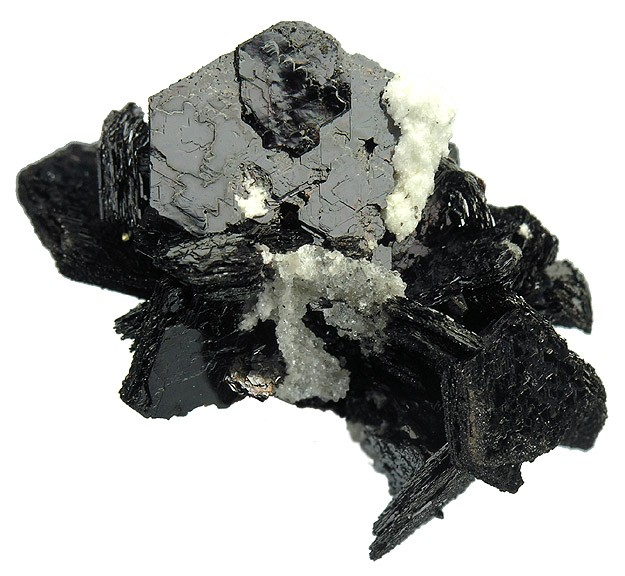 Wurtzite Locality: Yaogangxian Mine, Yizhang County, Chenzhou Prefecture, Hunan Province, China (Locality at ) Size: 2.6 x 1.8 x 1.3 cm. This piece features several highly lustrous, sharp, deep reddish-brown, platy hexagonal crystals measuring up to 11 mm associated with white Calcite.